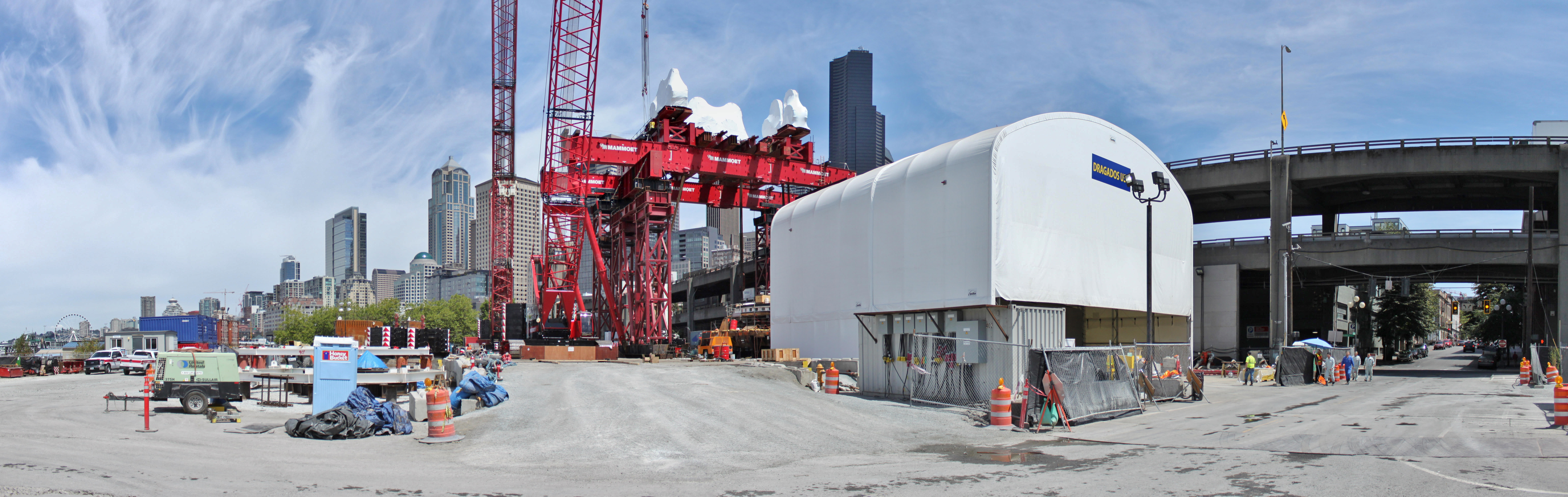 Bertha, the world's largest tunnel boring machine, has been stuck since December 2013 and was lifted to the surface in March 2015. Inside this canvas shed lies the front end of Bertha, where workers are inspecting and repairing components that failed two years ago. Current estimates (as of July 17, 2015) have Bertha resuming digging on November 23 and its tunnel being completed and open to traffic in March 2018.